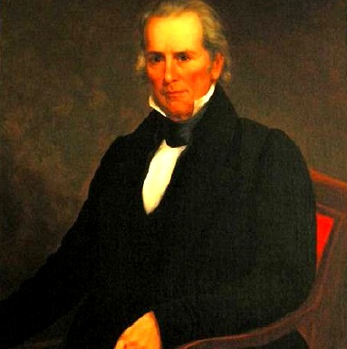 Robert Weakley, US Representative from Tennessee